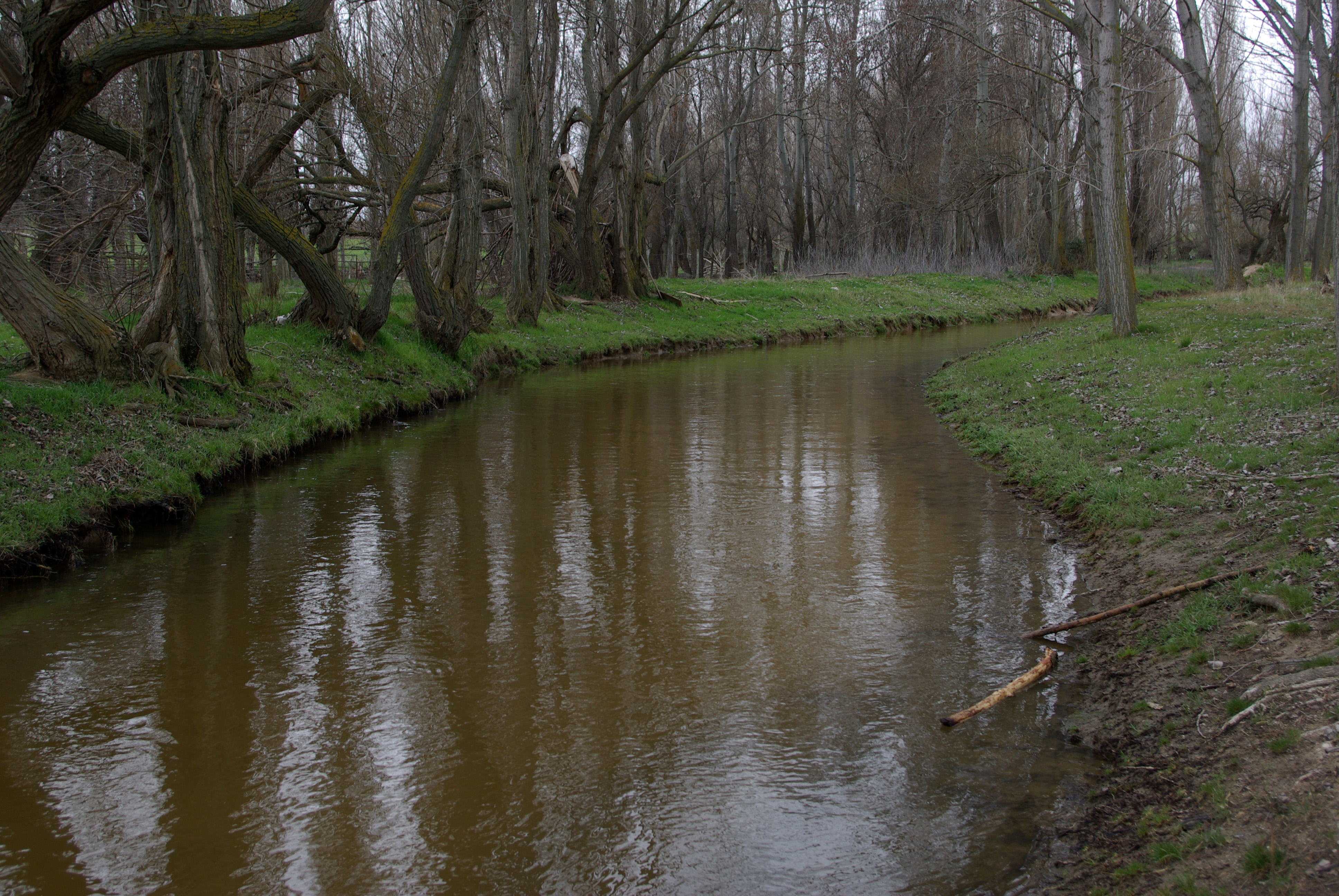 River Arevalillo near Santo Tomé de Zabarcos (Ávila, Spain)